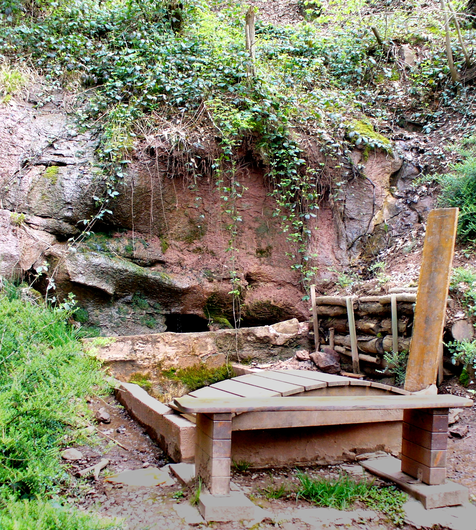 The "Heidenborn", the spring 'Am Irminenwingert' near the ancient Lenus Mars temple in Trier.